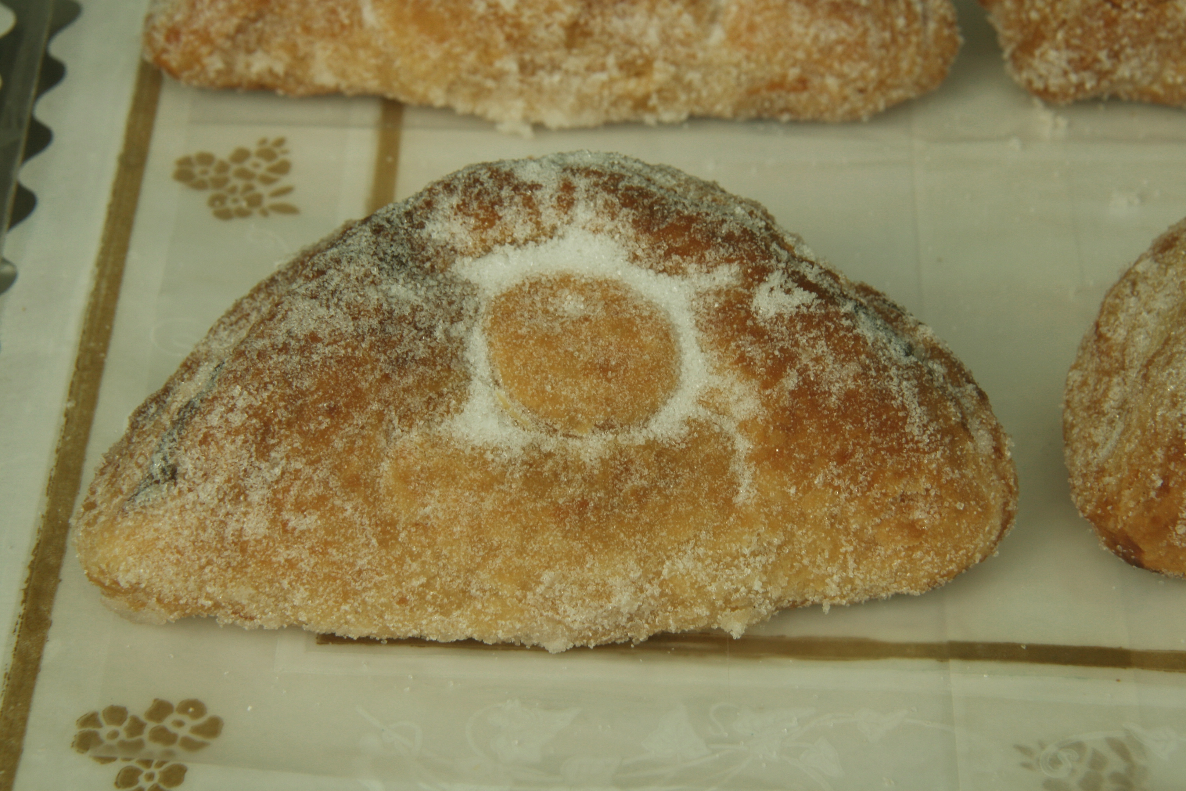 Pastissets stuffed with Cabell d'àngel